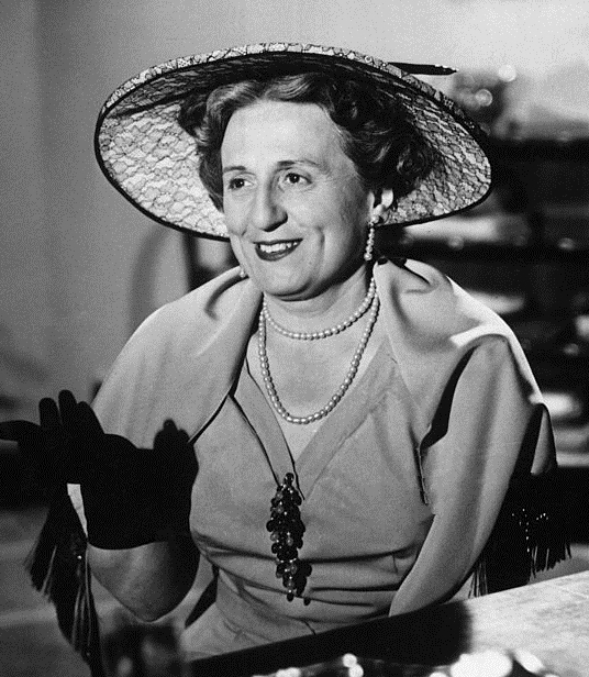 The Italian actress Titina De Filippo acting in a movie. 1950s